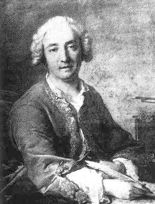 Joseph Nicolas Pancrace Royer composant Zaïde, reine de Grenade, by Jean-Marc Nattier